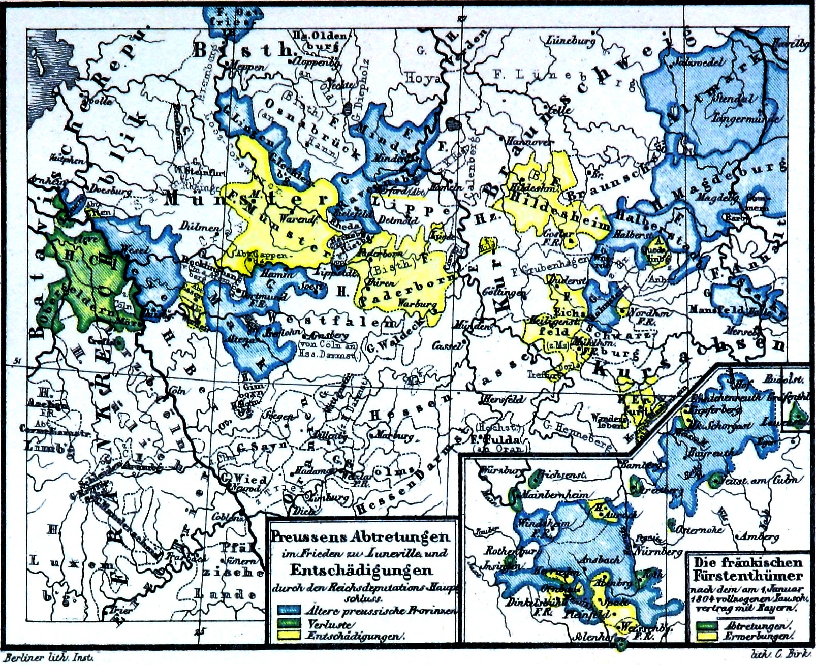 Map showing the territorial acquisitions (in yellow) and losses (in green, mostly to France) of Prussia (in blue) following the Treaty of Lunéville (1801) and the Reichsdeputationshauptschluss of 1803. Extracted from page 161 of Die Territorialgeschichte des brandenburgisch preussischen Staates, im Auschluss an zehn historische Karten übersichtlich dargestellt, Fix W. Original held and digitised by the British Library. Note: The colours, contrast and appearance of these illustrations are unlikely to be true to life. They are derived from scanned images that have been enhanced for machine interpretation and have been altered from their originals.